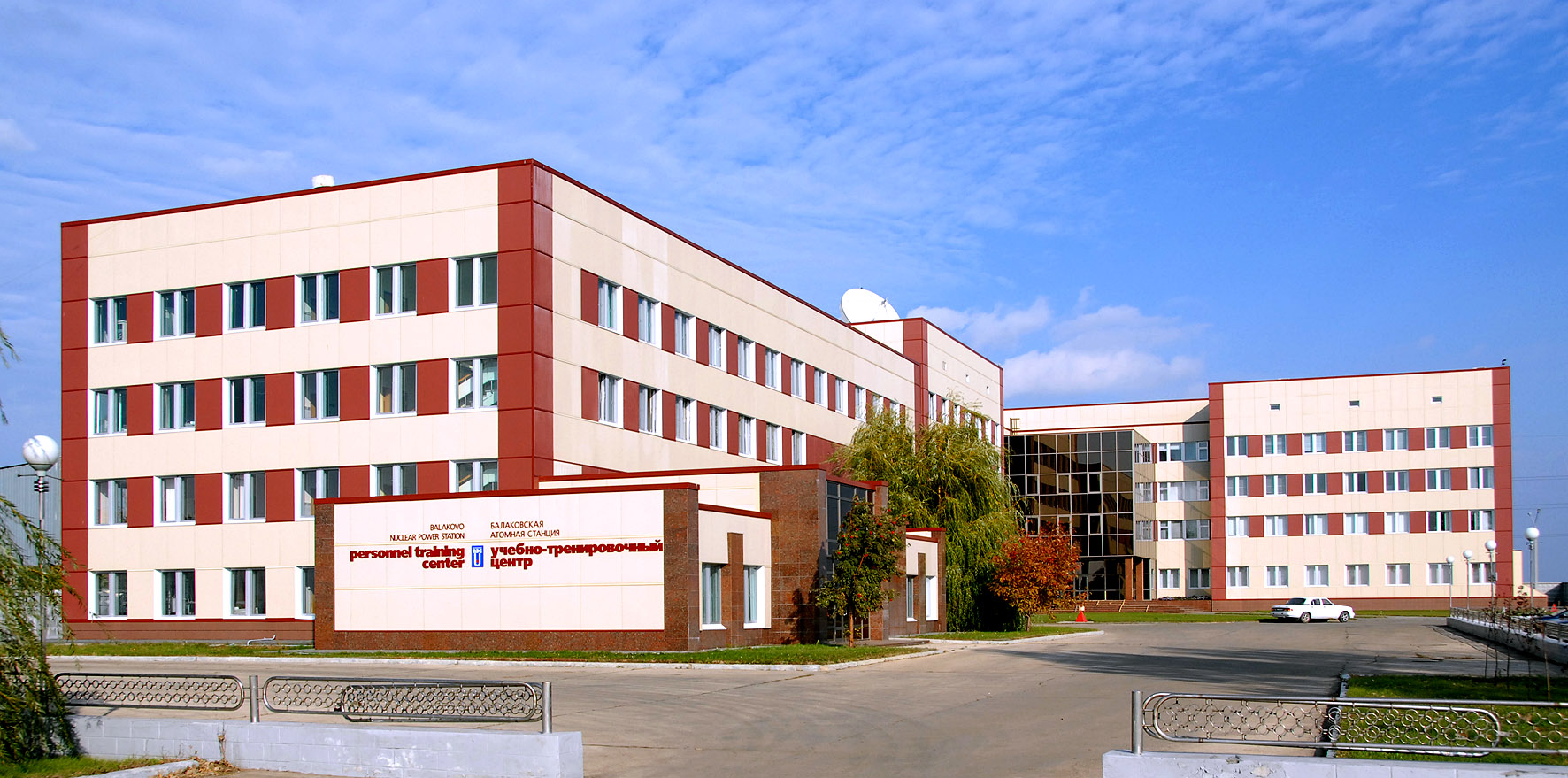 Personnel Training Center of the Balakovo NPP